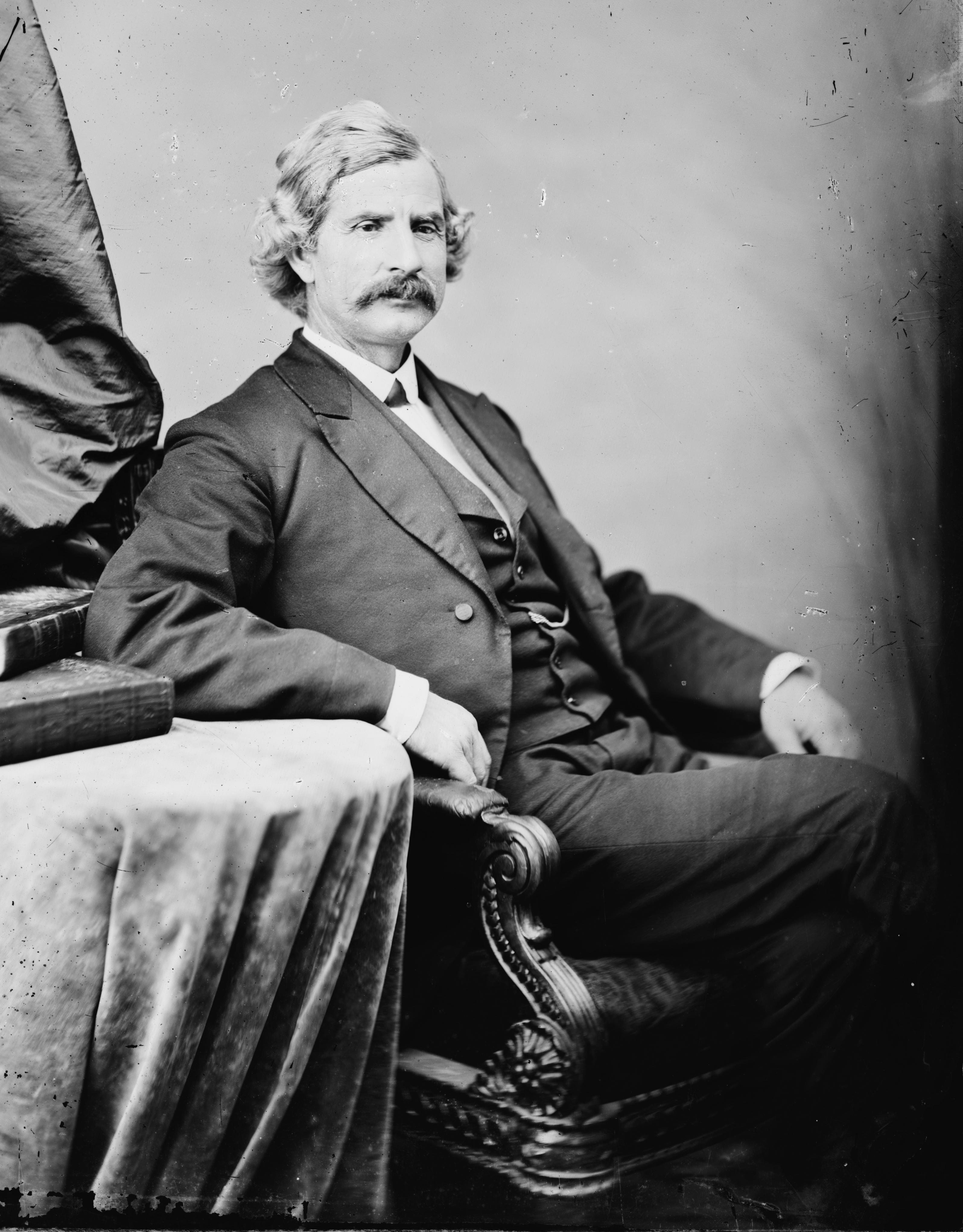 Benjamin T. Biggs. Library of Congress description: "Hon. Benjamin Thomas Biggs of Delaware"